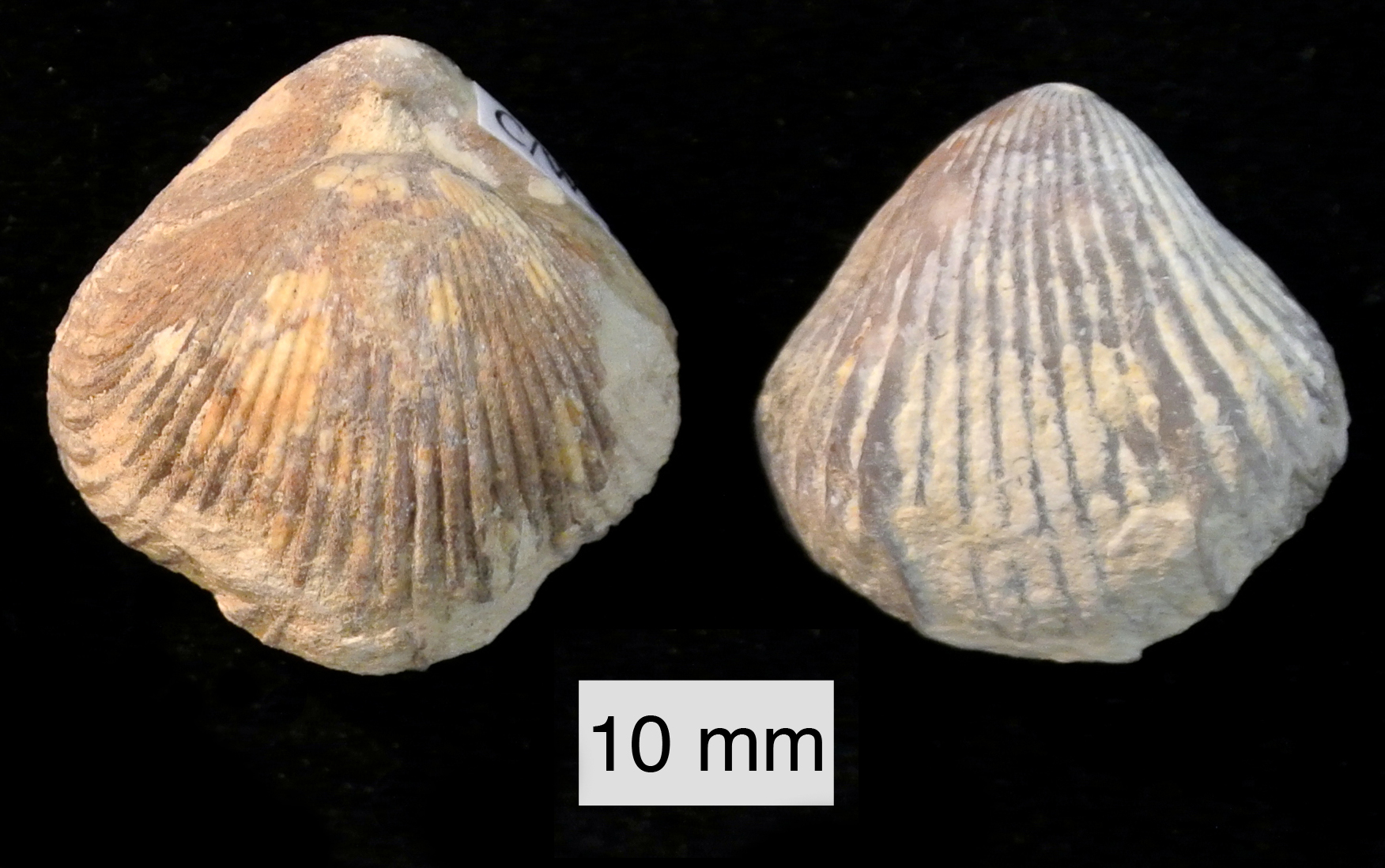 Burmirhynchia jirbaensis from the Jurassic (Callovian) Matmor Formation of Makhtesh Gadol, southern Israel.